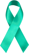 Sea green ribon - symbol International Stuttering Awareness Day (ISAD)